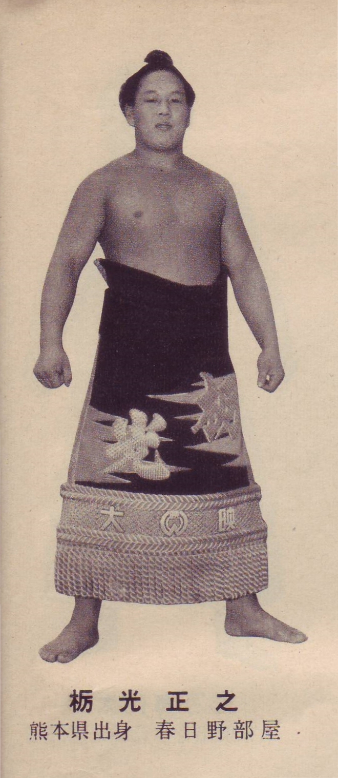 Tochihikari Masayuki. taken in 1958, or before that.